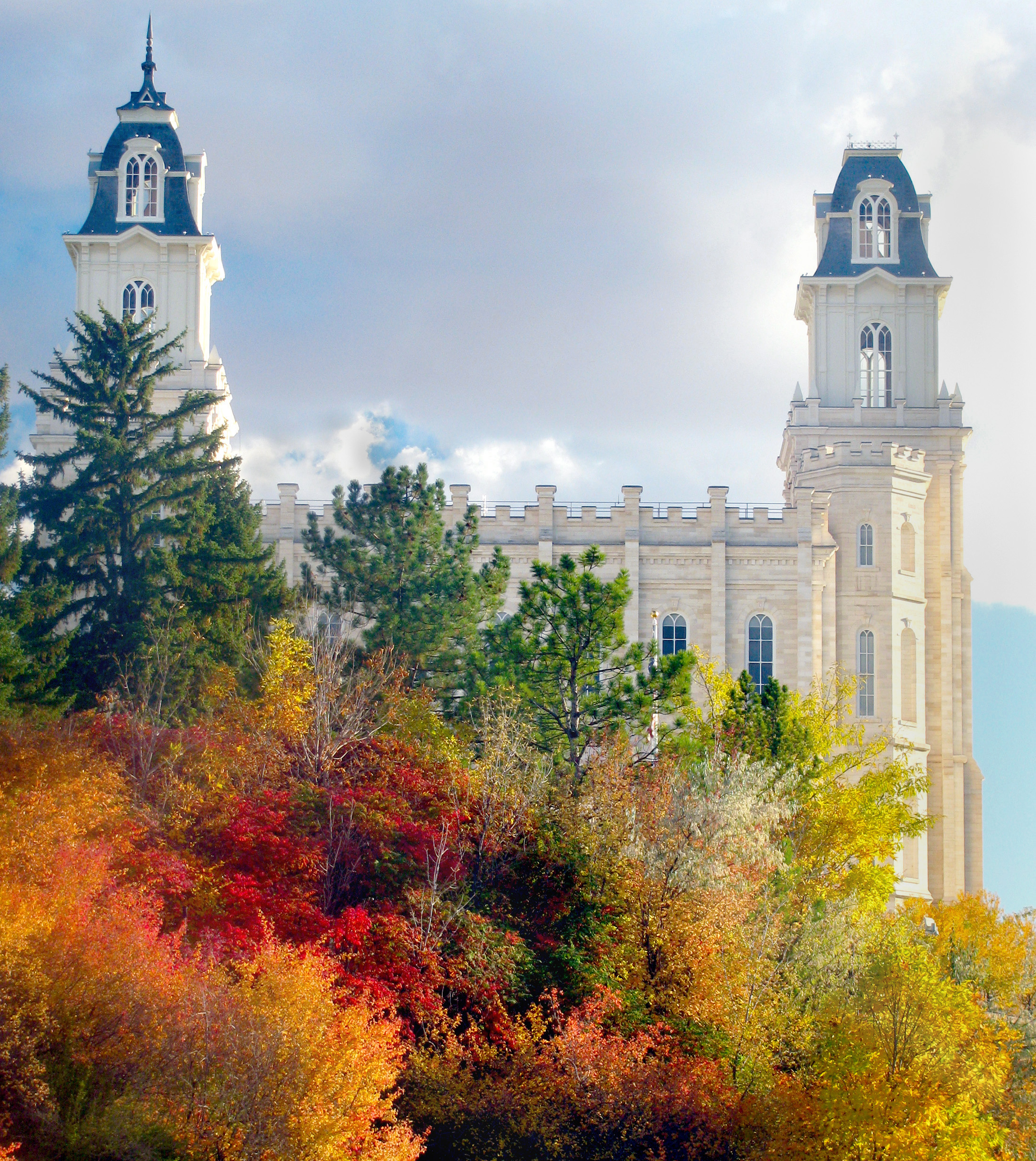 Manti Temple, dedicated 21 May 1888